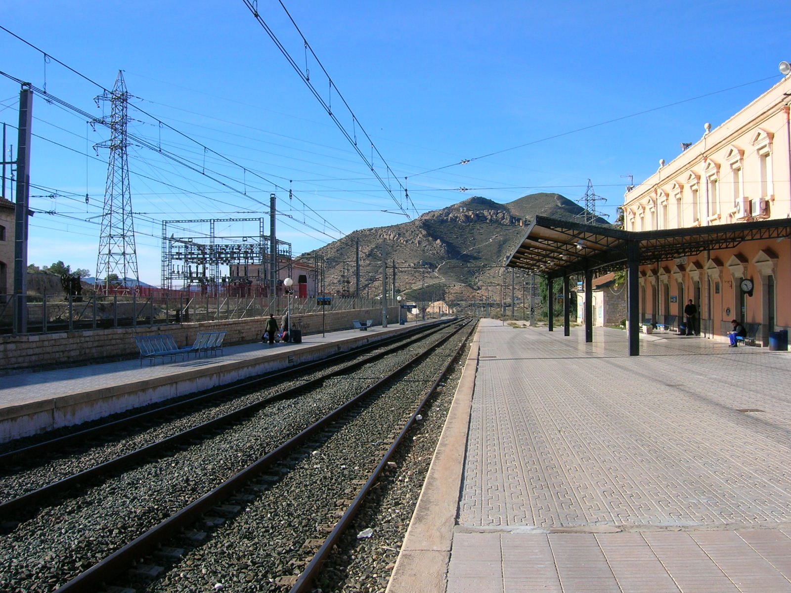 Elda Railway Station